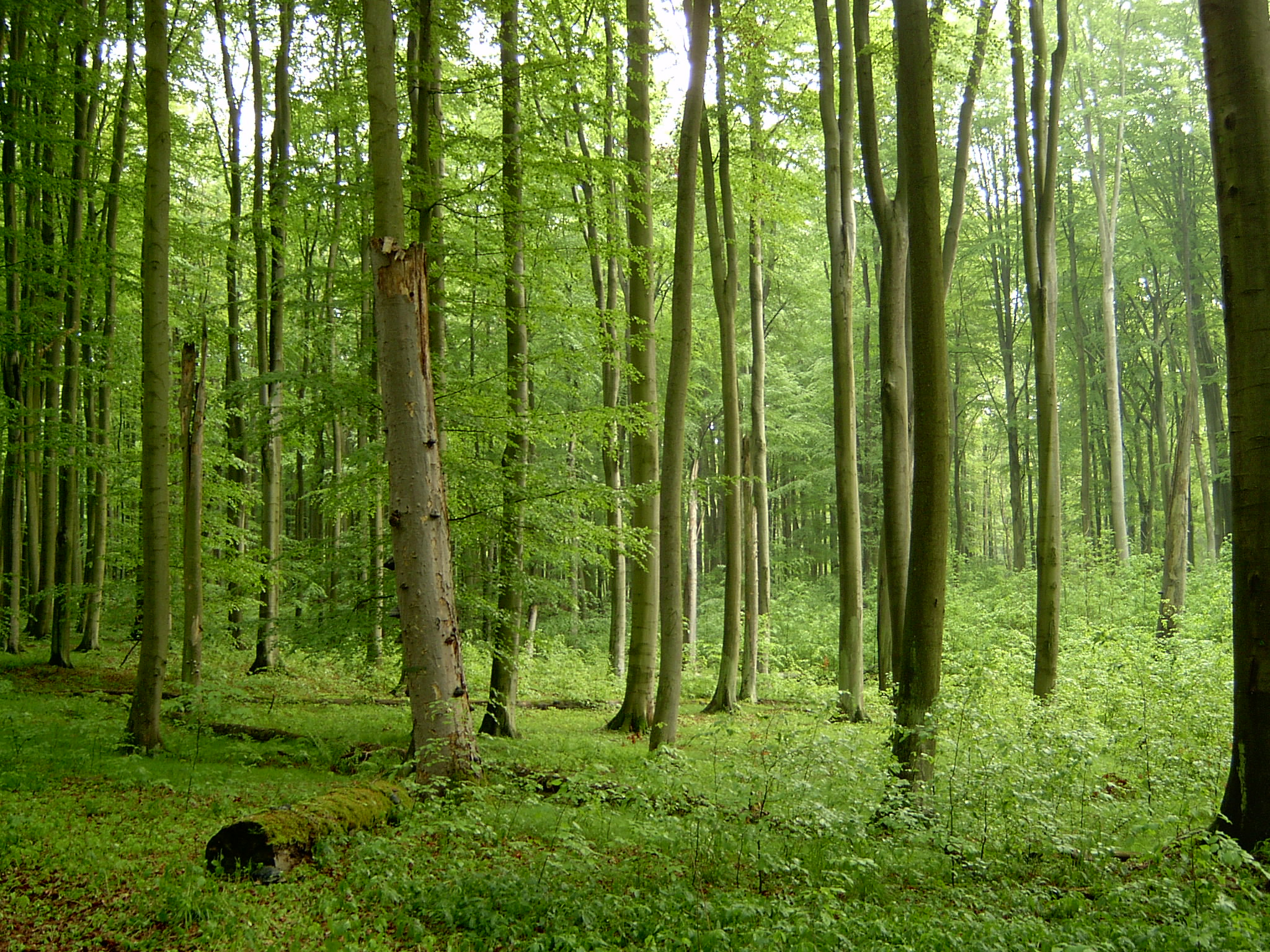 Beech forest in Zrodliskowa Buczyna reserve near Szczecin (NW Poland)